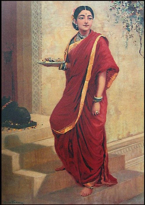 A lady going to worship in temple